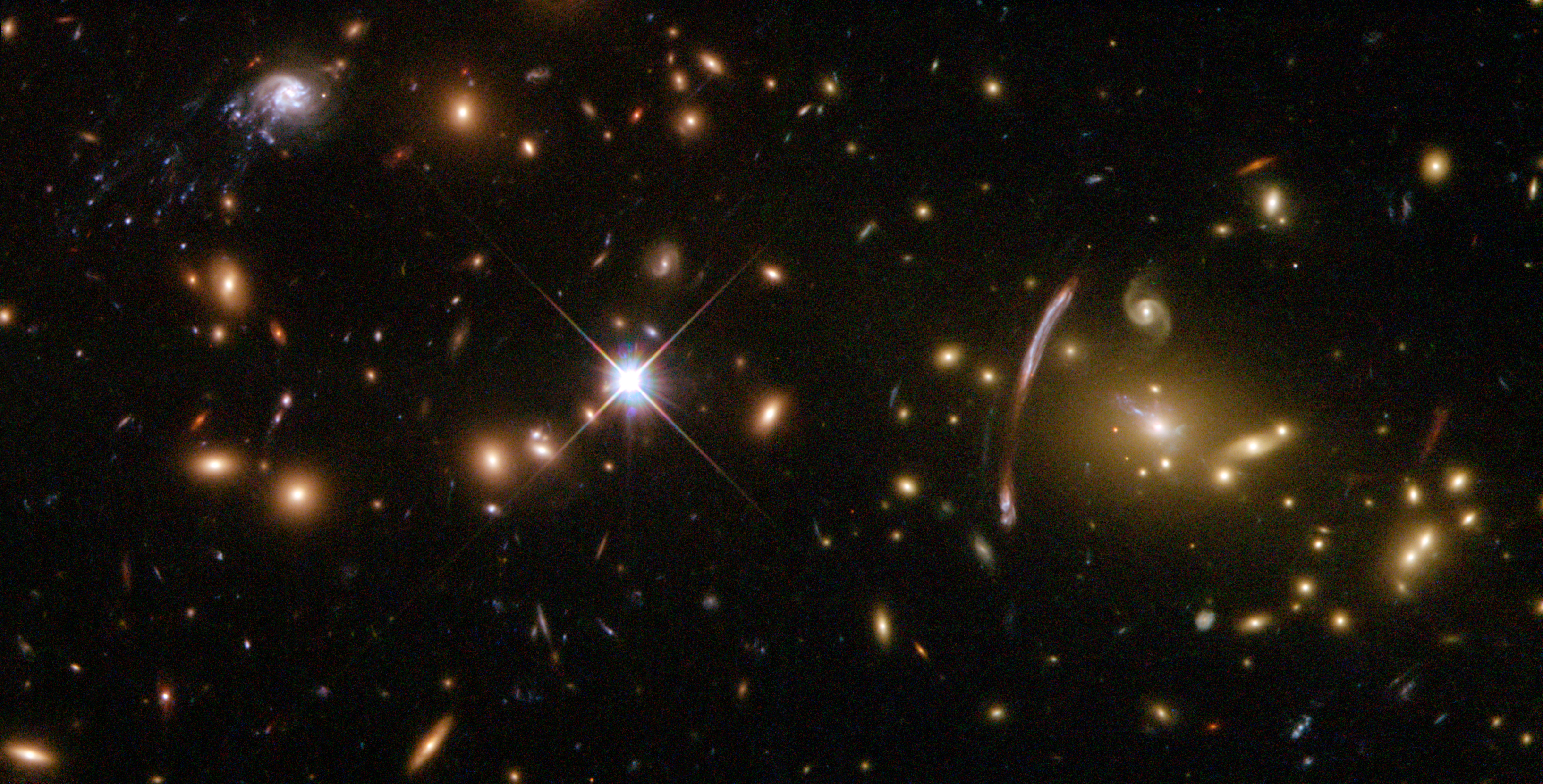 While looking at the galaxy cluster Abell 2667, astronomers found an odd-looking spiral galaxy (shown here in the upper left hand corner of the image) that ploughs through the cluster after being accelerated to at least 3.5 million km/h by the enormous combined gravity of the cluster's dark matter, hot gas and hundreds of galaxies.